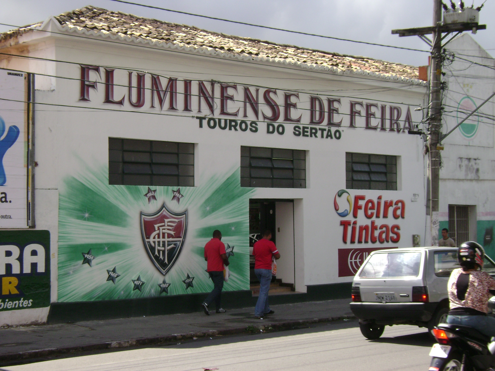 Fachada de estabelecimento do Clube Fluminense de Feira, em Feira de Santana, Bahia, Brasil.